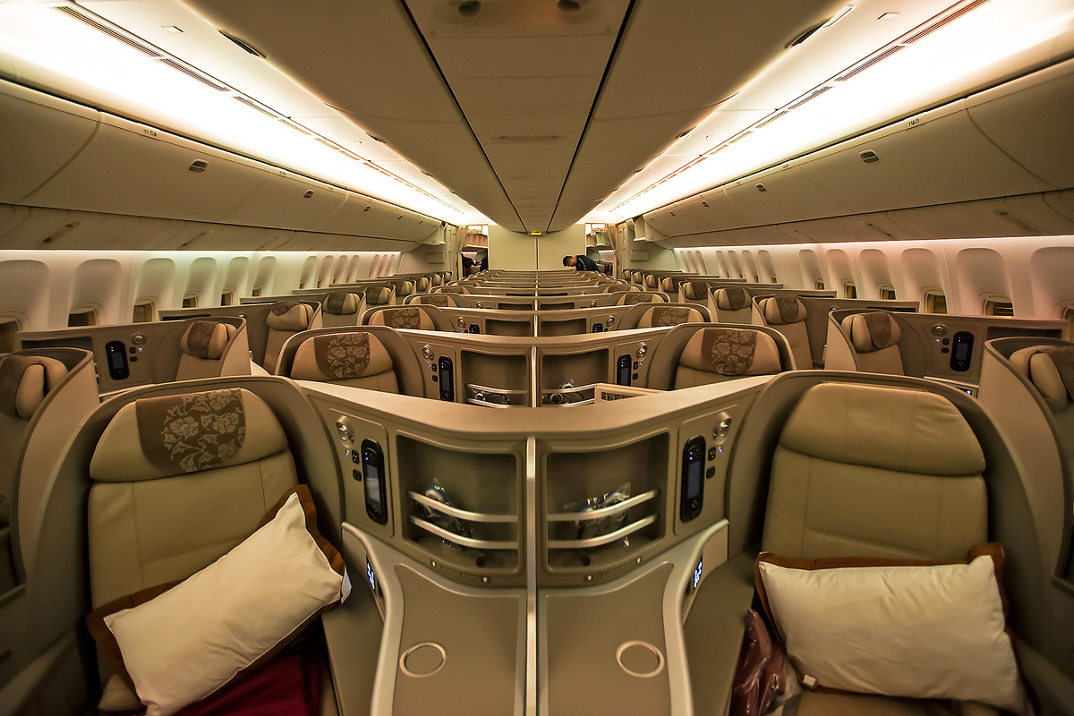 Business class cabin of China Eastern's B77W